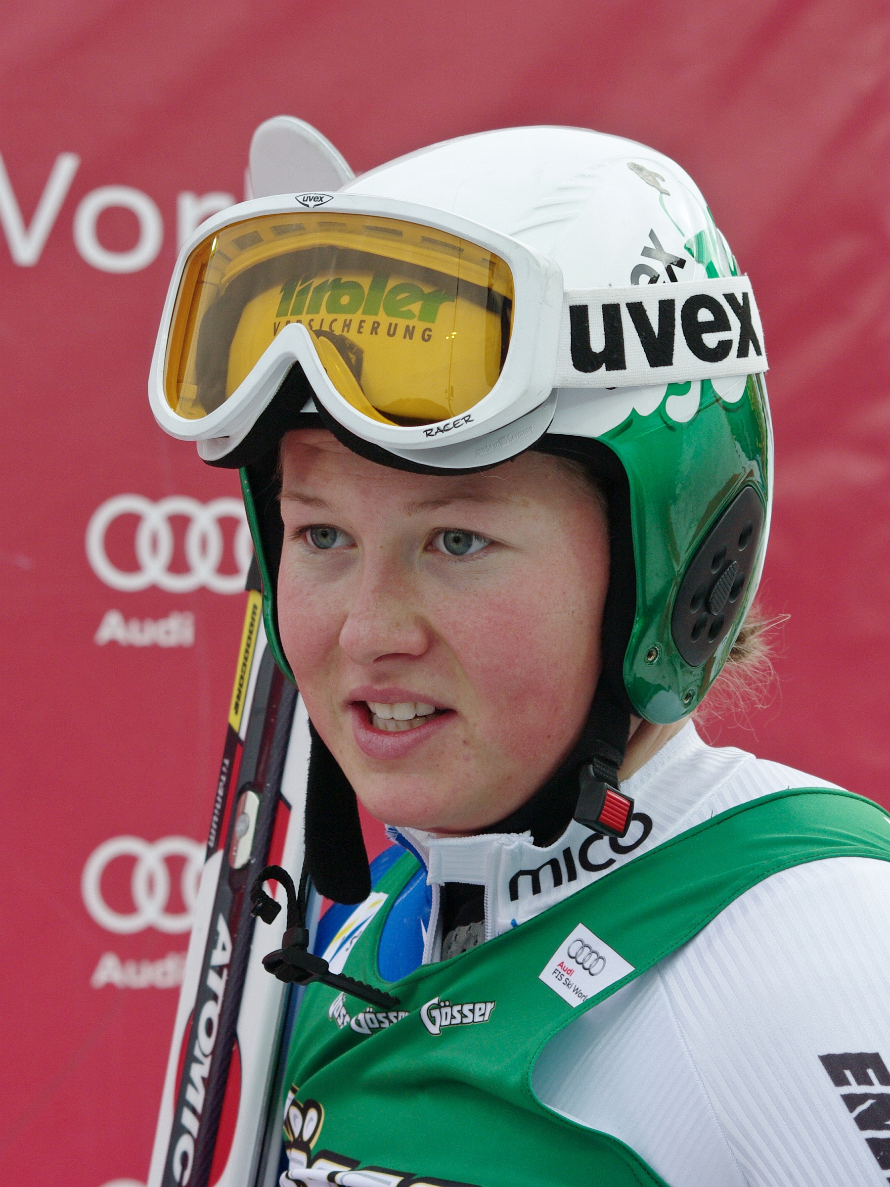 Italian alpine skier Lisa Magdalena Agerer after the first run of the Giant Slalom in Semmering (Austria) on 28 December 2010.